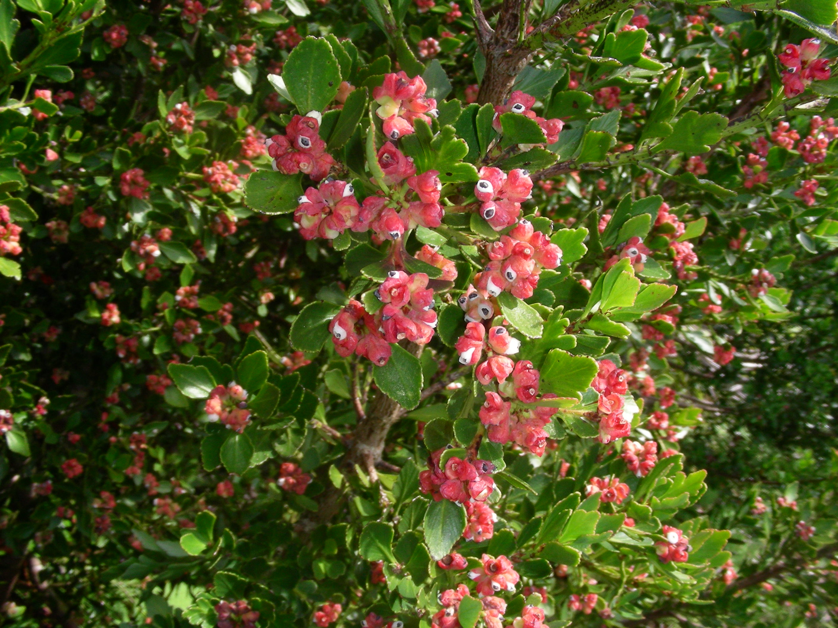 Day 5 Overland Track, Cradle Mountain - Lake St Claire National Park, Tasmania